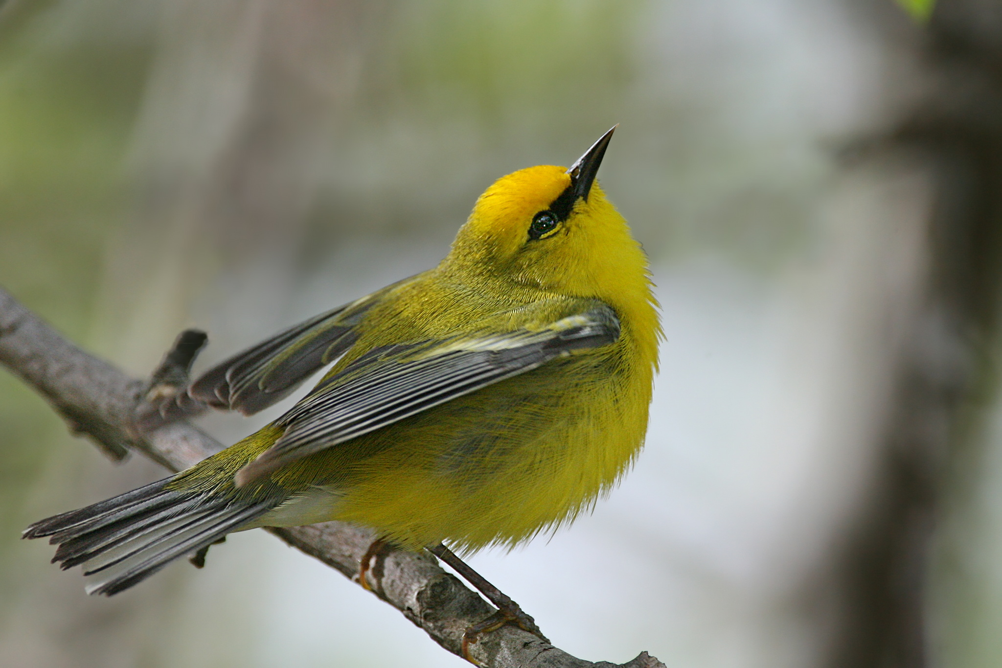 Blue-winged Warbler (Vermivora pinus)